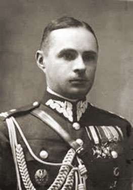 Janusz Bokszczanin (1894–1973) - Polish military, colonel of the Polish Army. During World War II officer of ZWZ resistance organization, later Armia Krajowa